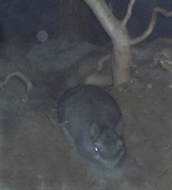 Species Lagostomus maximus Family Chinchillidae